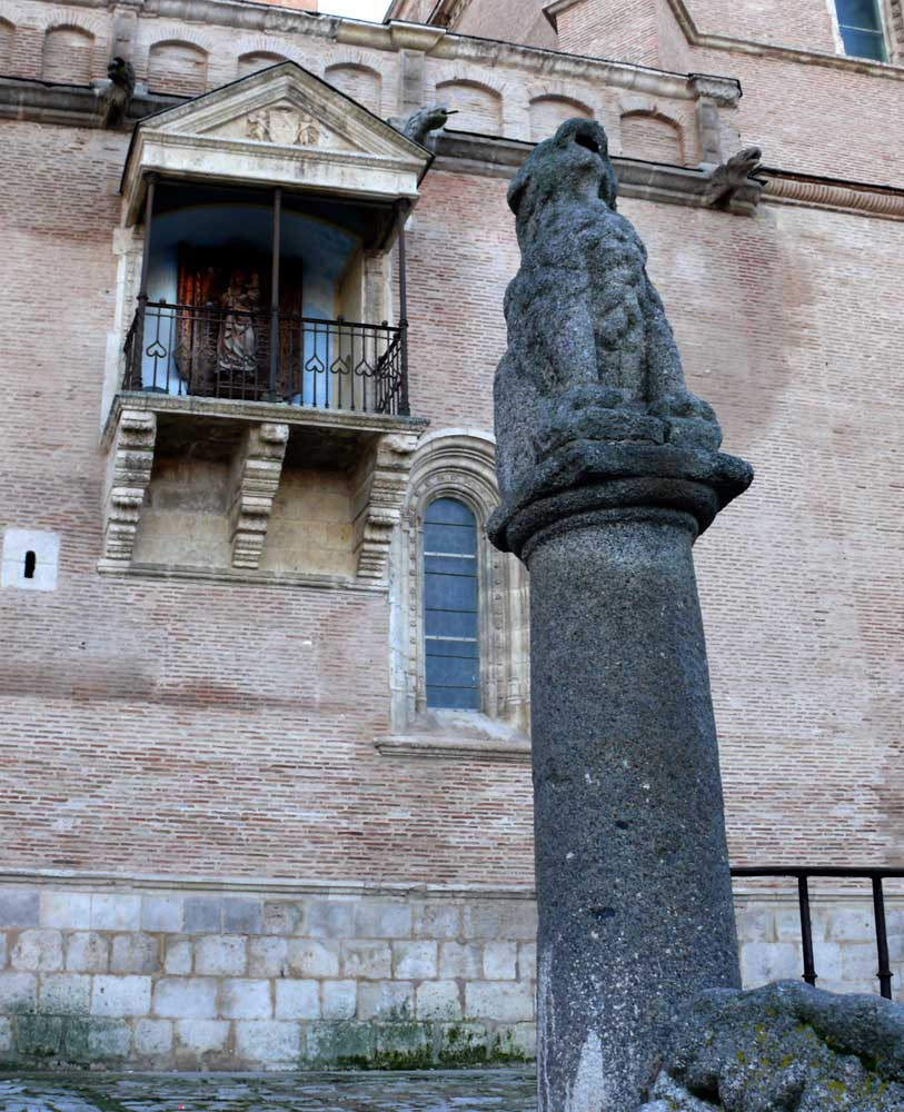 Outer chapel of la Virgen del Pópolo in the colegiate church of Medina del Campo, close-up the atrium